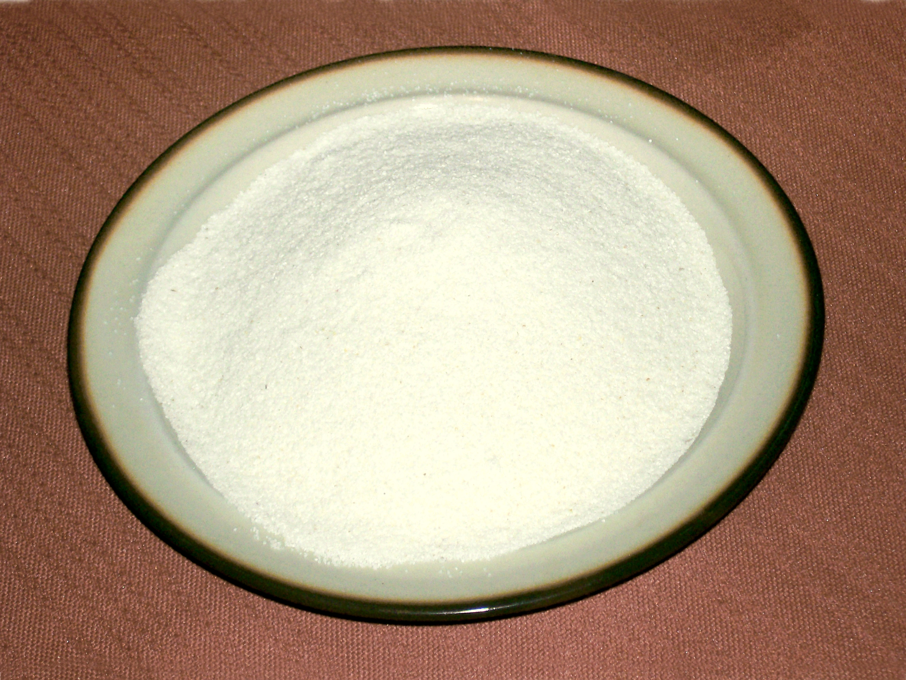 description:Kasza manna - sucha author:Ewkaa